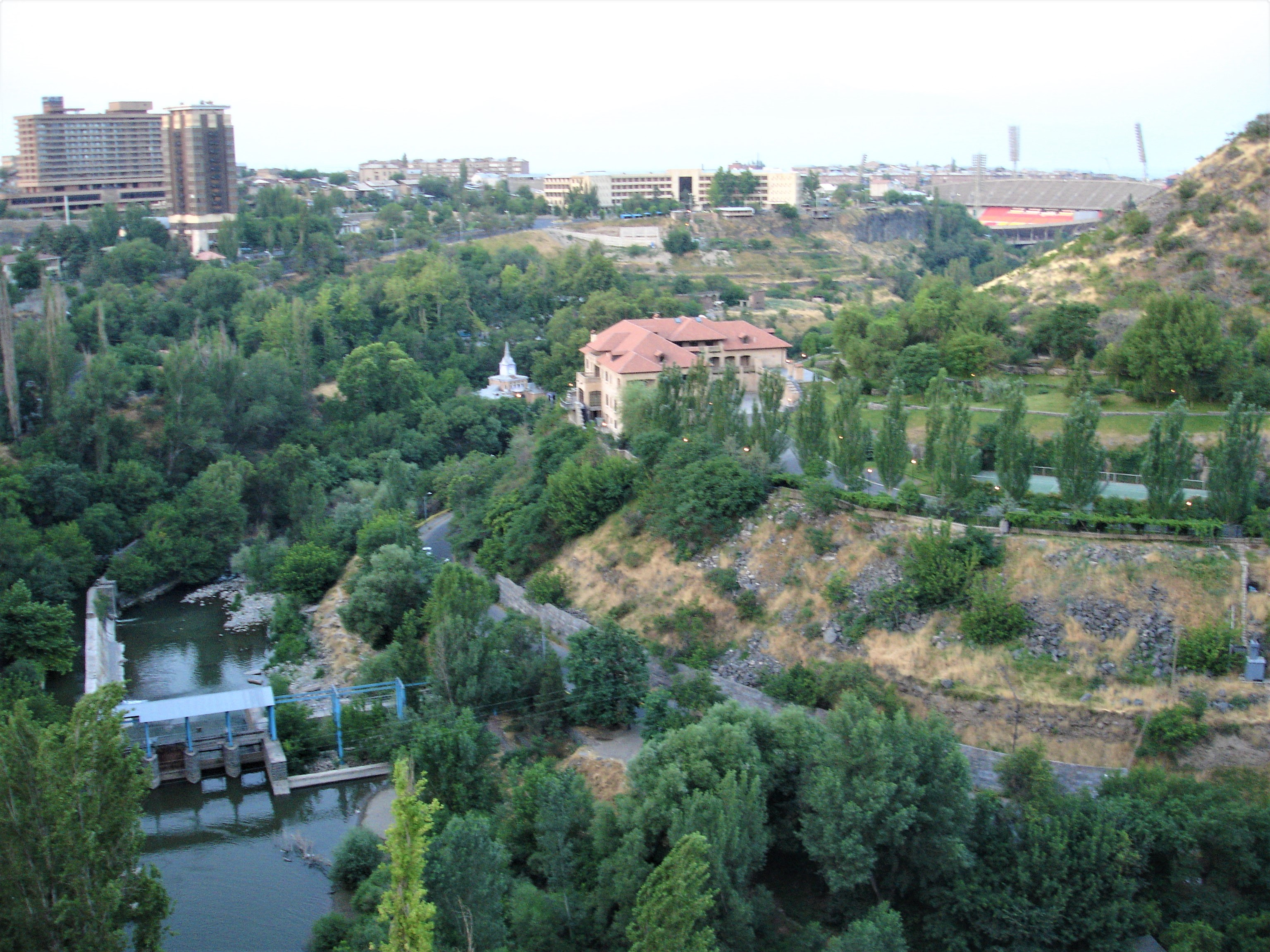 Picture of the Hrazdan river at proshian street